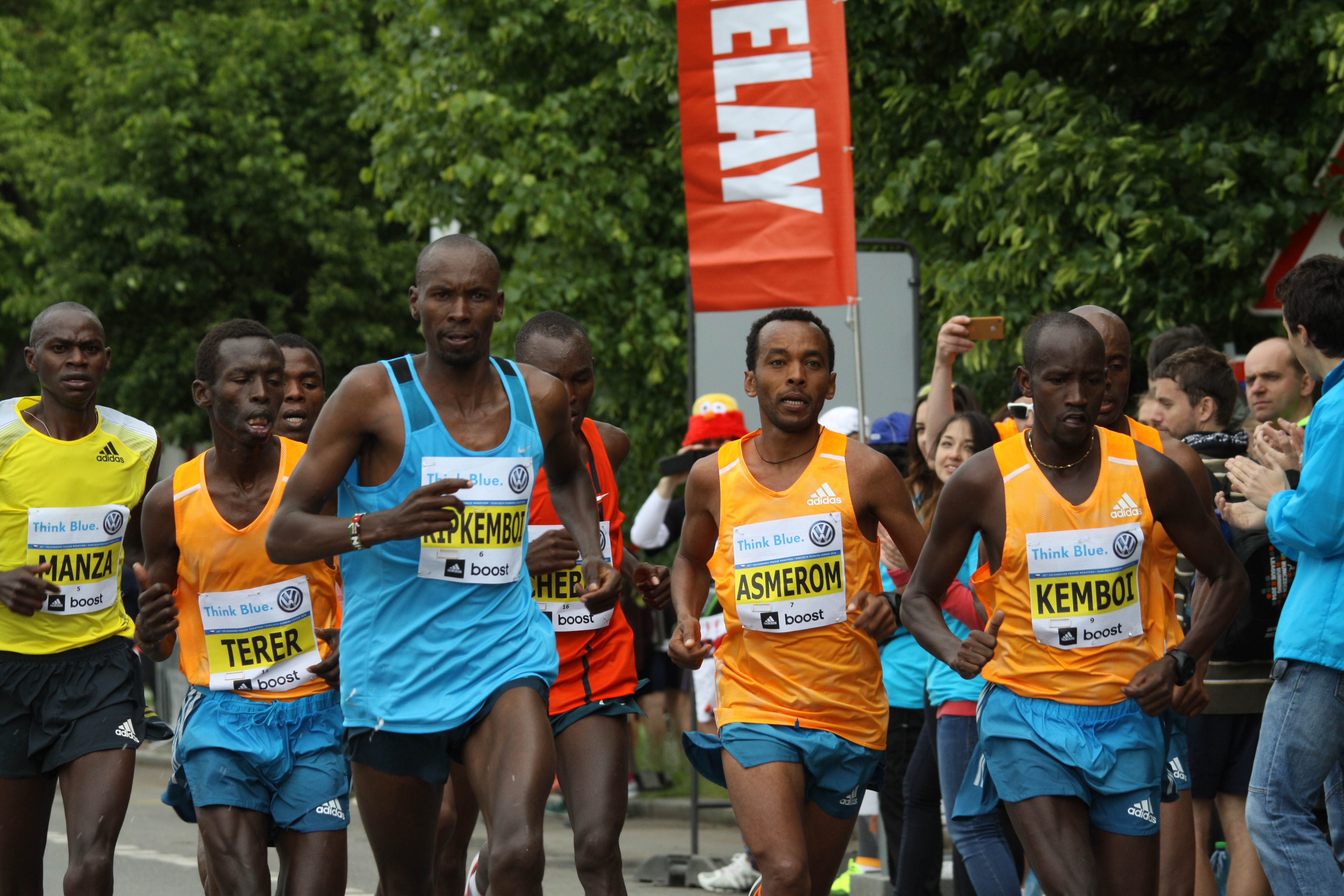 Prague International Marathon in 2014, Czech Republic